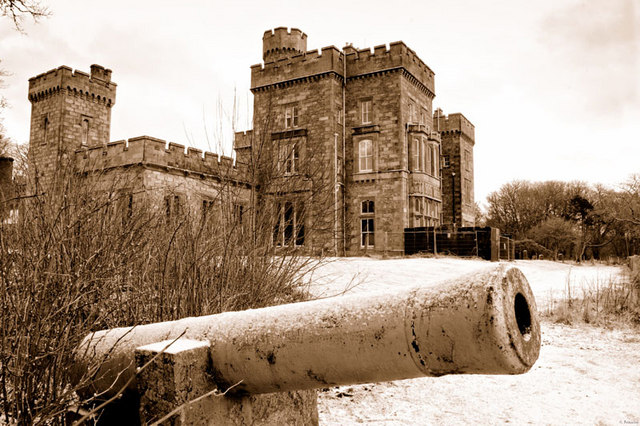 Lews Castle Commissioned by Sir James Matheson in 1847, Lews Castle cost £60,000 to build and took 7 years to complete. It sits on the west side of Stornoway harbour, opposite the town, and there are plans to refurbish the building and turn it into a hotel and conference centre.